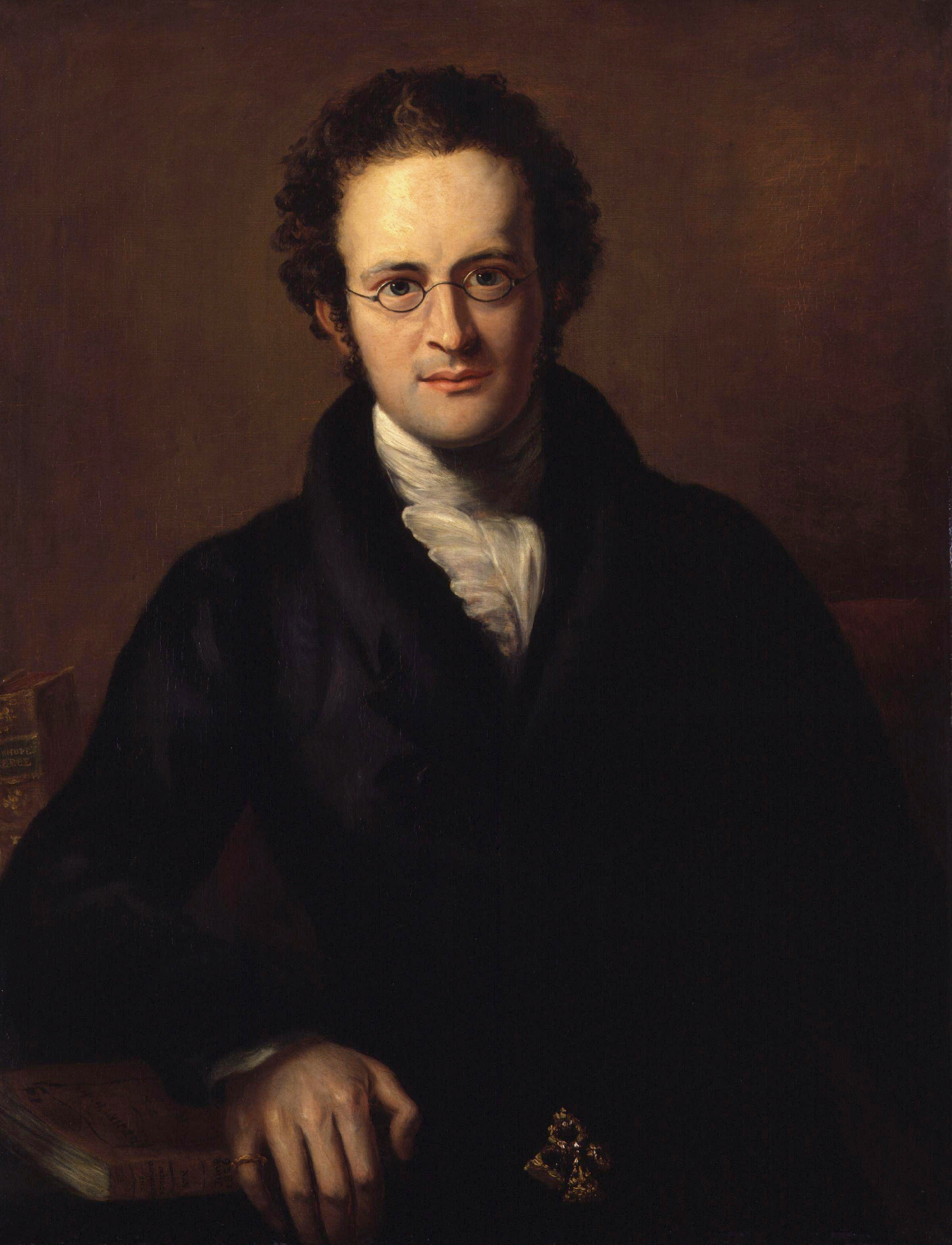 All images in this batch have been confirmed as author died before 1939 according to the official death date listed by the NPG, given to the National Portrait Gallery, London in 1898.